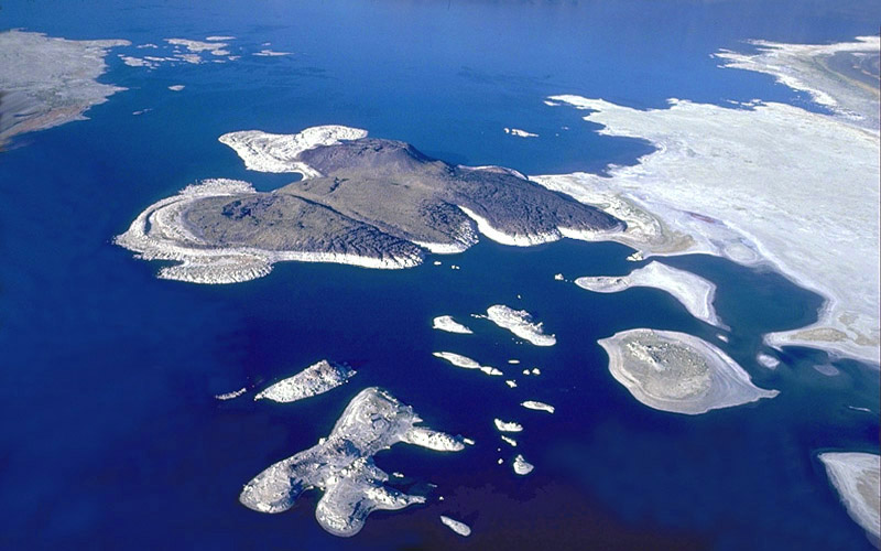 This high aerial view of Negit Island is toward the southwest. Three separate vents each erupted individual dacite lava flows to form three parallel elongate flows. The vents are located on the highest parts of the flows. The lava flows erupted between about 2,000 and 200 years ago. The northwest edge of Paoha Island is visible in upper left.